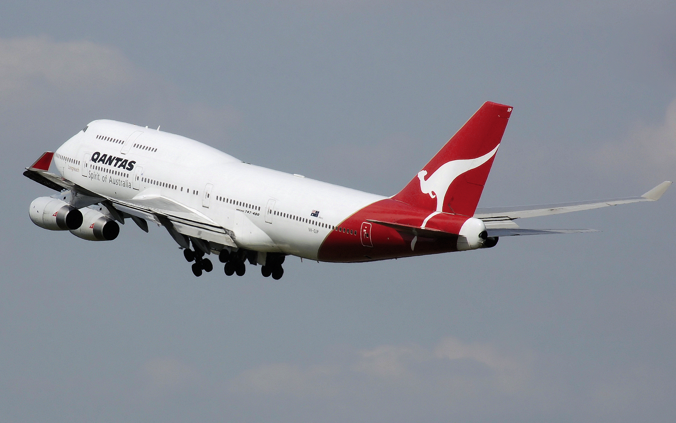 Qantas Boeing 747-400 (VH-OJP) taking of from Soekarno Hatta International Airport